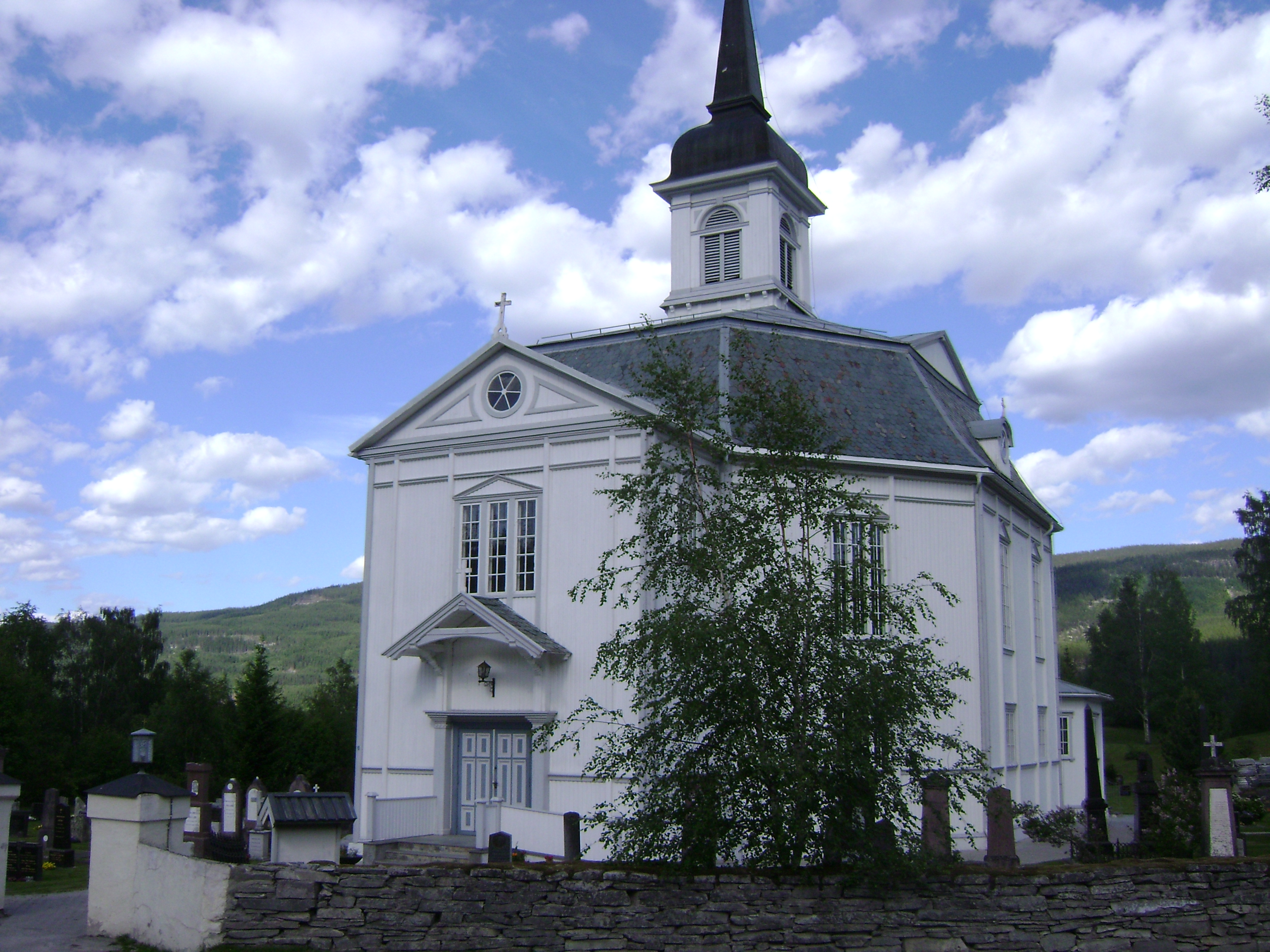 Stor-Elvdak church in Tynset